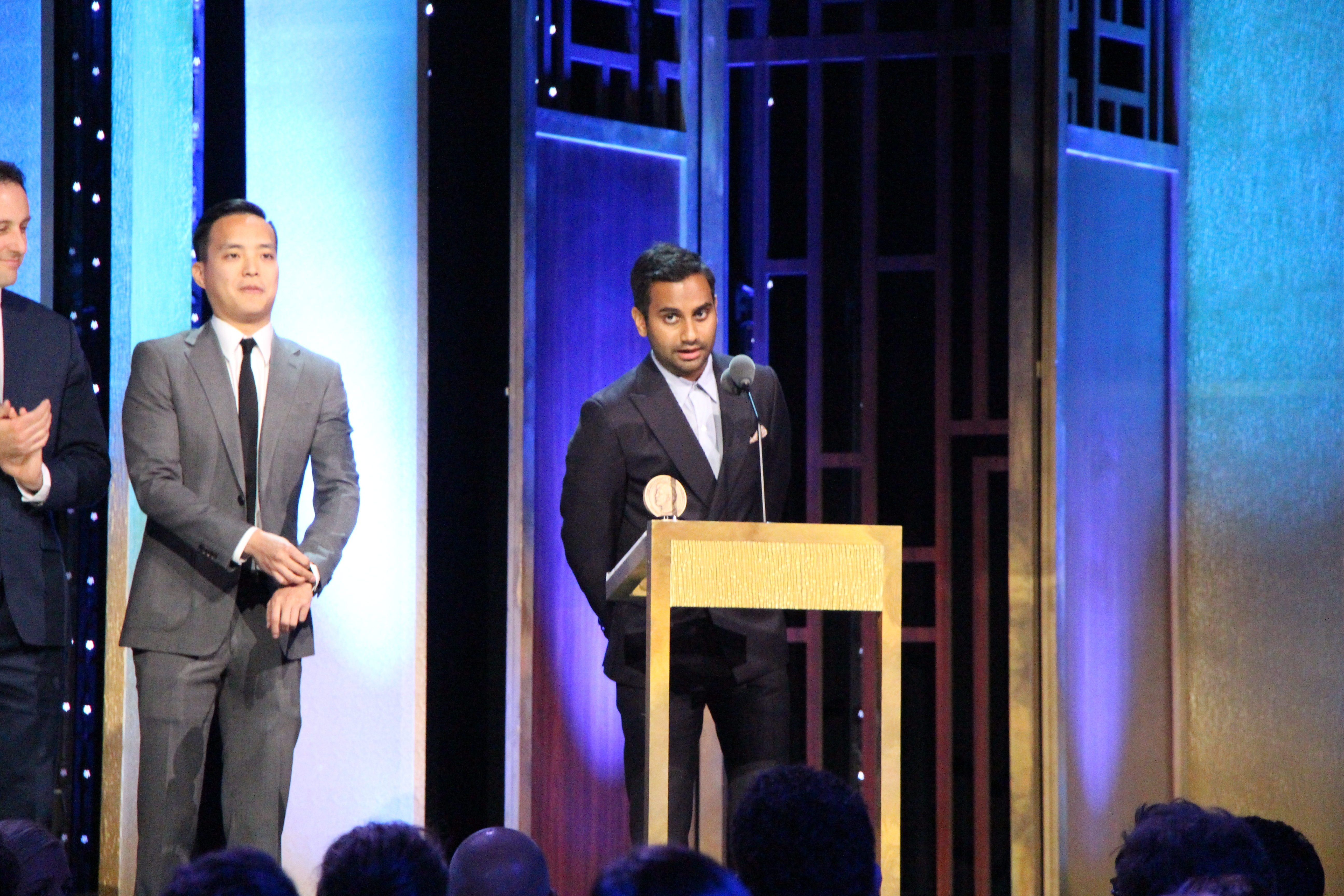 This photo includes Co-Creators and Executive Producers Aziz Ansari and Alan Yang. (Photo/Sarah E. Freeman/Grady College, in New York City, Georgia, on Saturday, May 21, 2016)